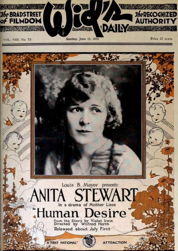 Advertisement for the American film Human Desire (1919) with Anita Stewart, on the cover of the June 15, 1919 Film Daily.